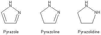 Chemical structures of Pyrazole Derivatives